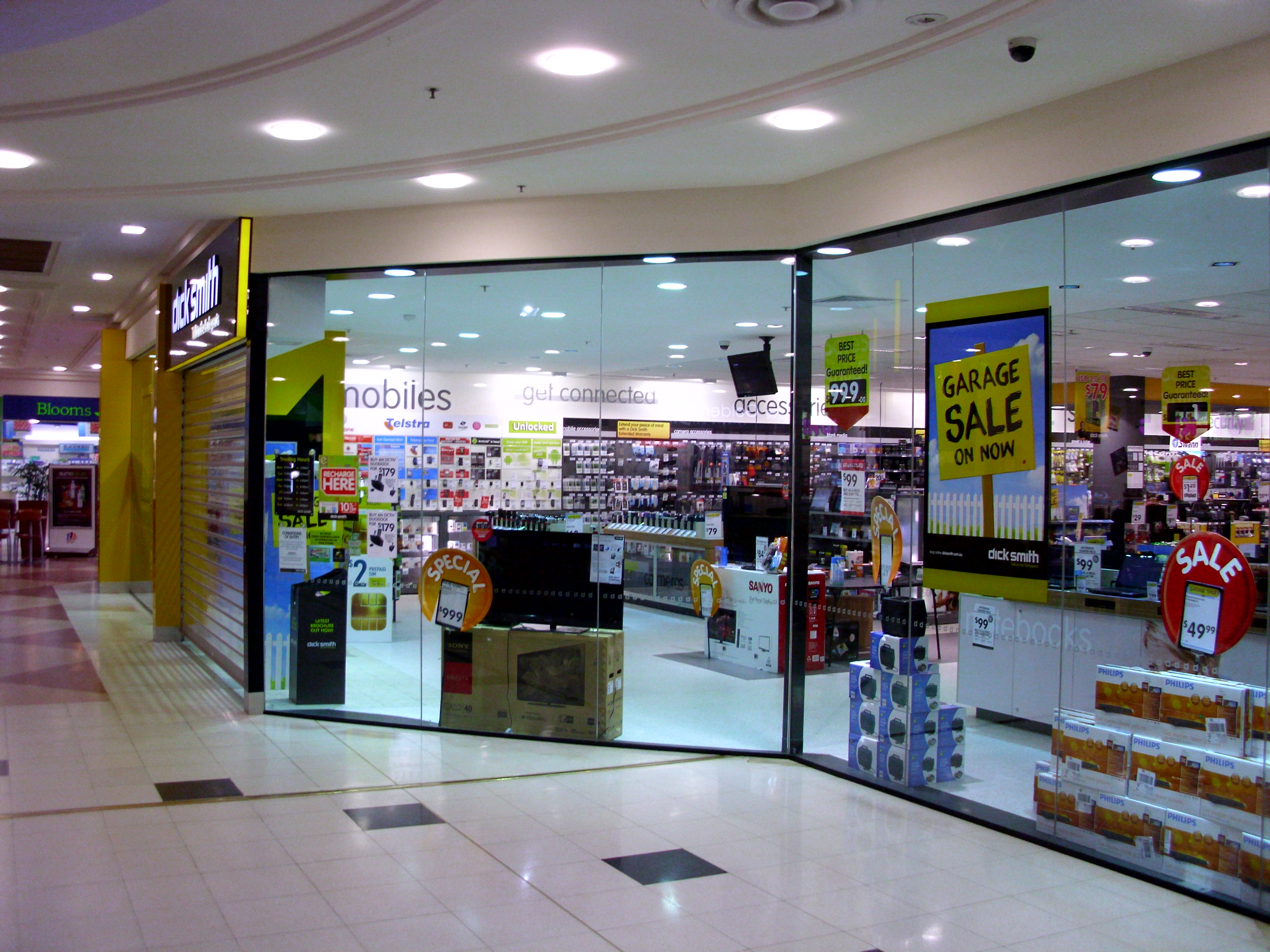 Dick Smith outlet in the Sturt Mall in Wagga Wagga, New South Wales, Australia.